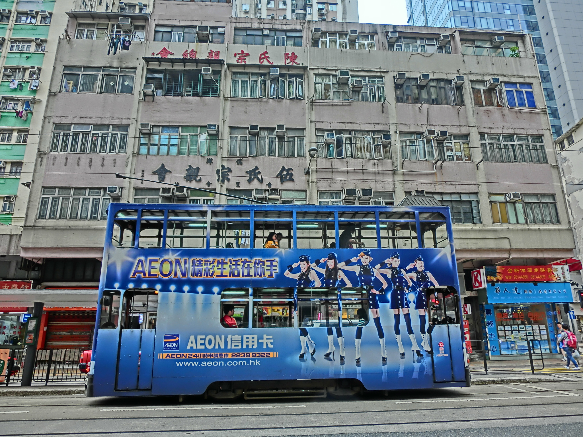 德輔道西, Des Voeux Road West, Sai Ying Pun, Hong Kong